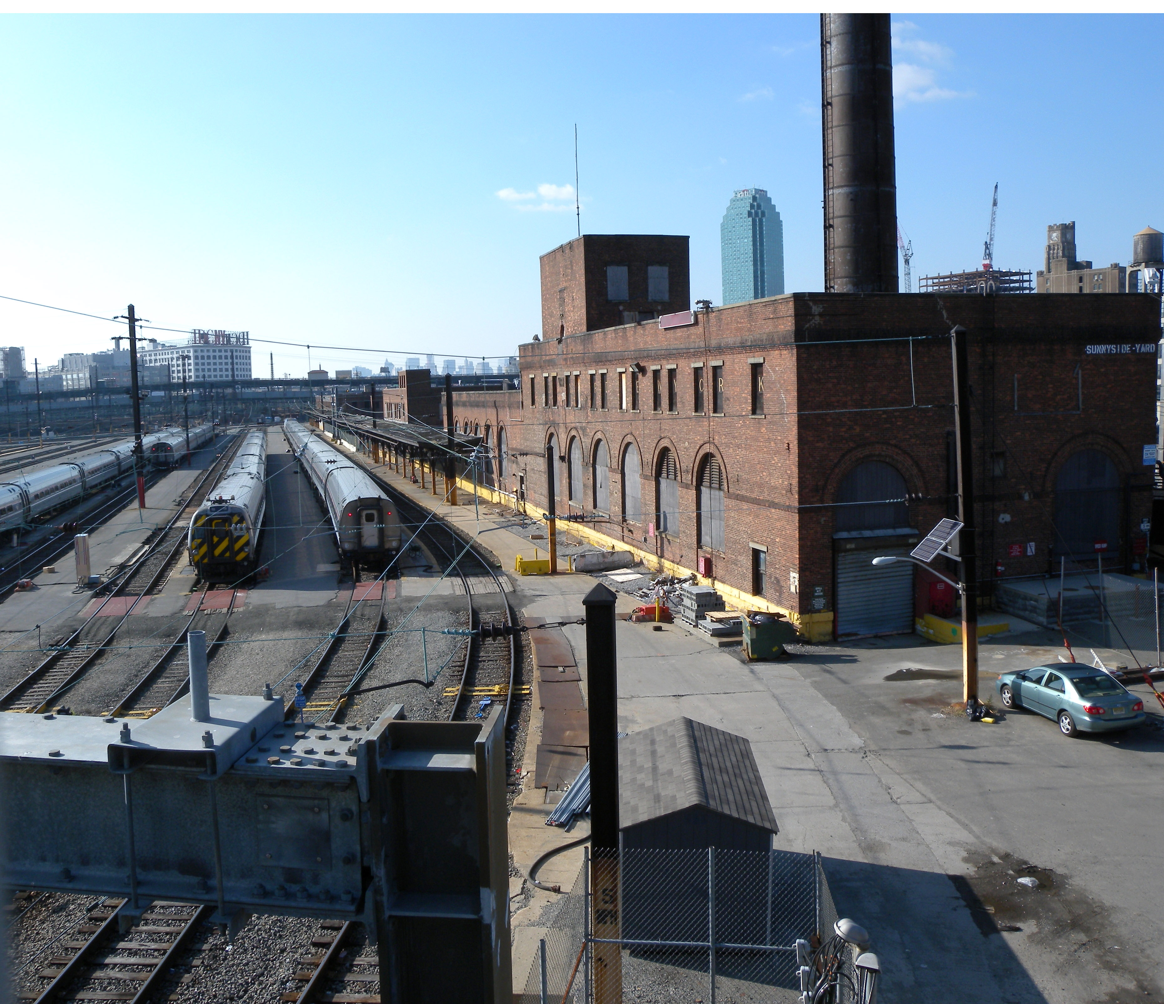 Looking southwest from Honeywell Avenue viaduct at former power plant of Sunnyside Yards on a sunny midday.